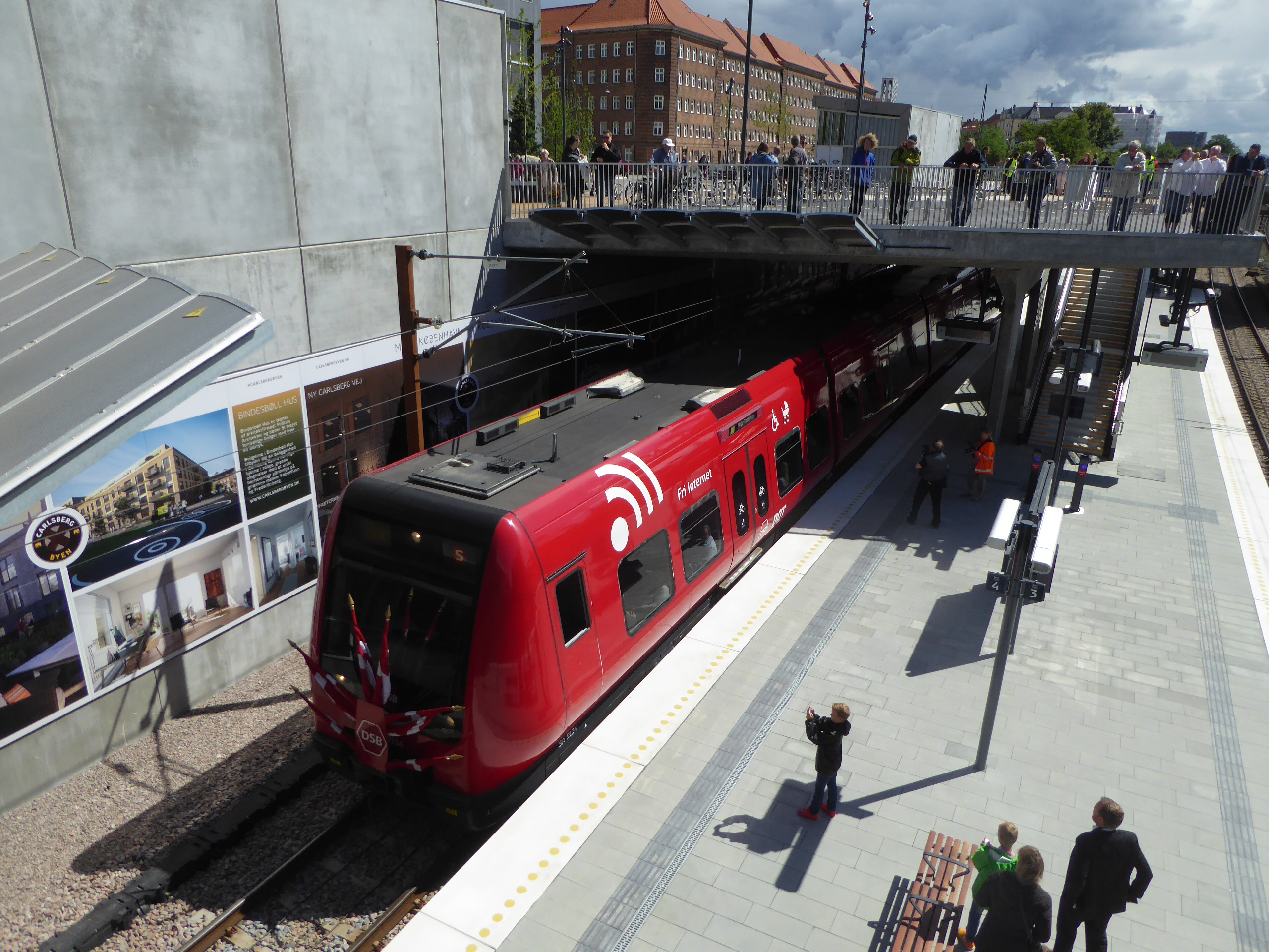 The first S-train at the opening of Carlsberg Station in Copenhagen.